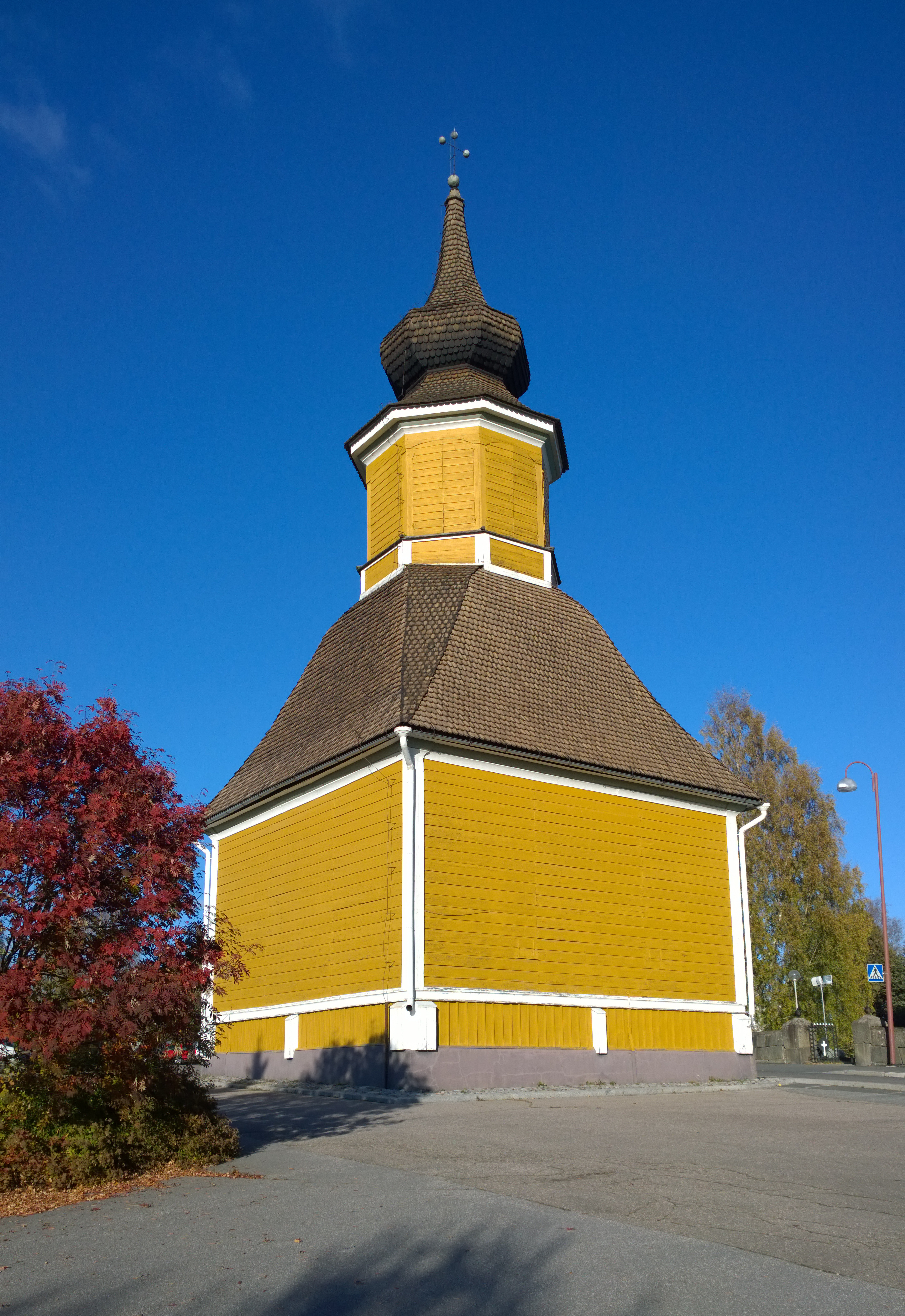 Bell tower of Orivesi Church